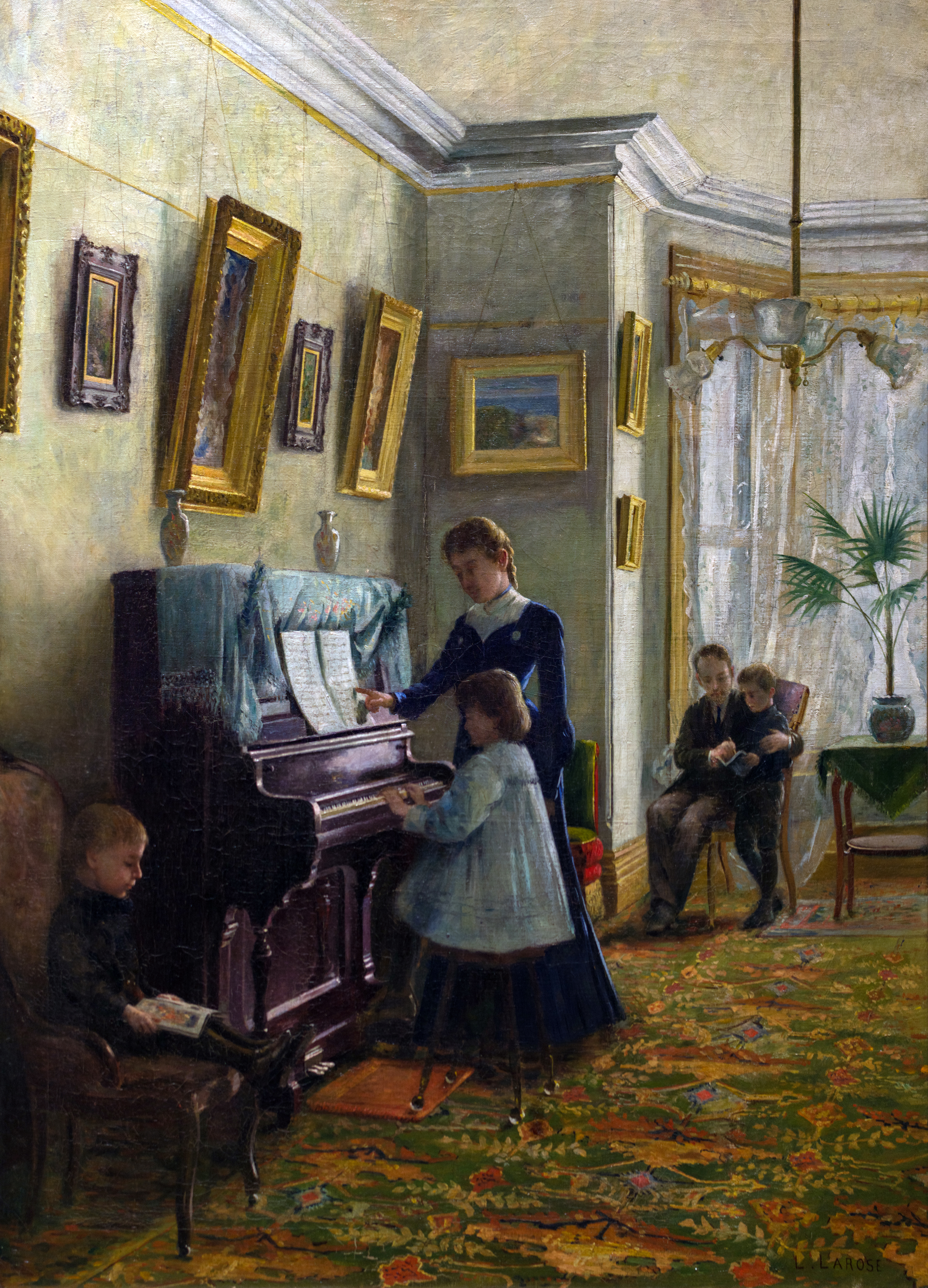 Jeanne au piano by Ludger Larose 1907[1]